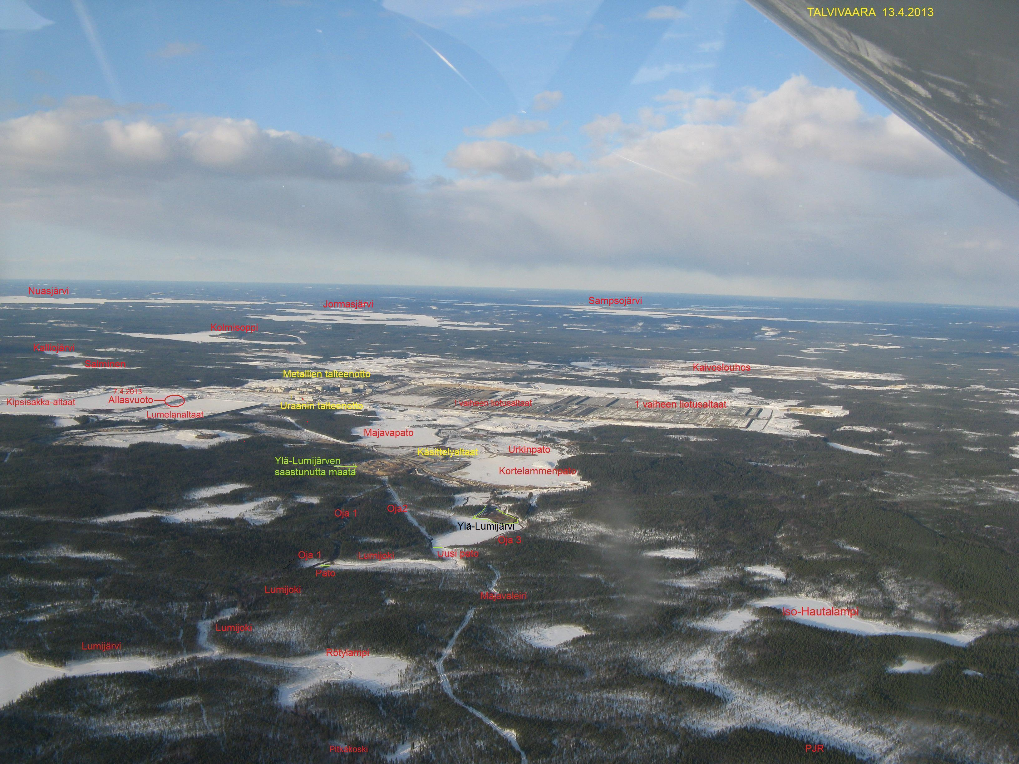 Aerial photograph of Talvivaara mine in Sotkamo, Finland. April 2013.